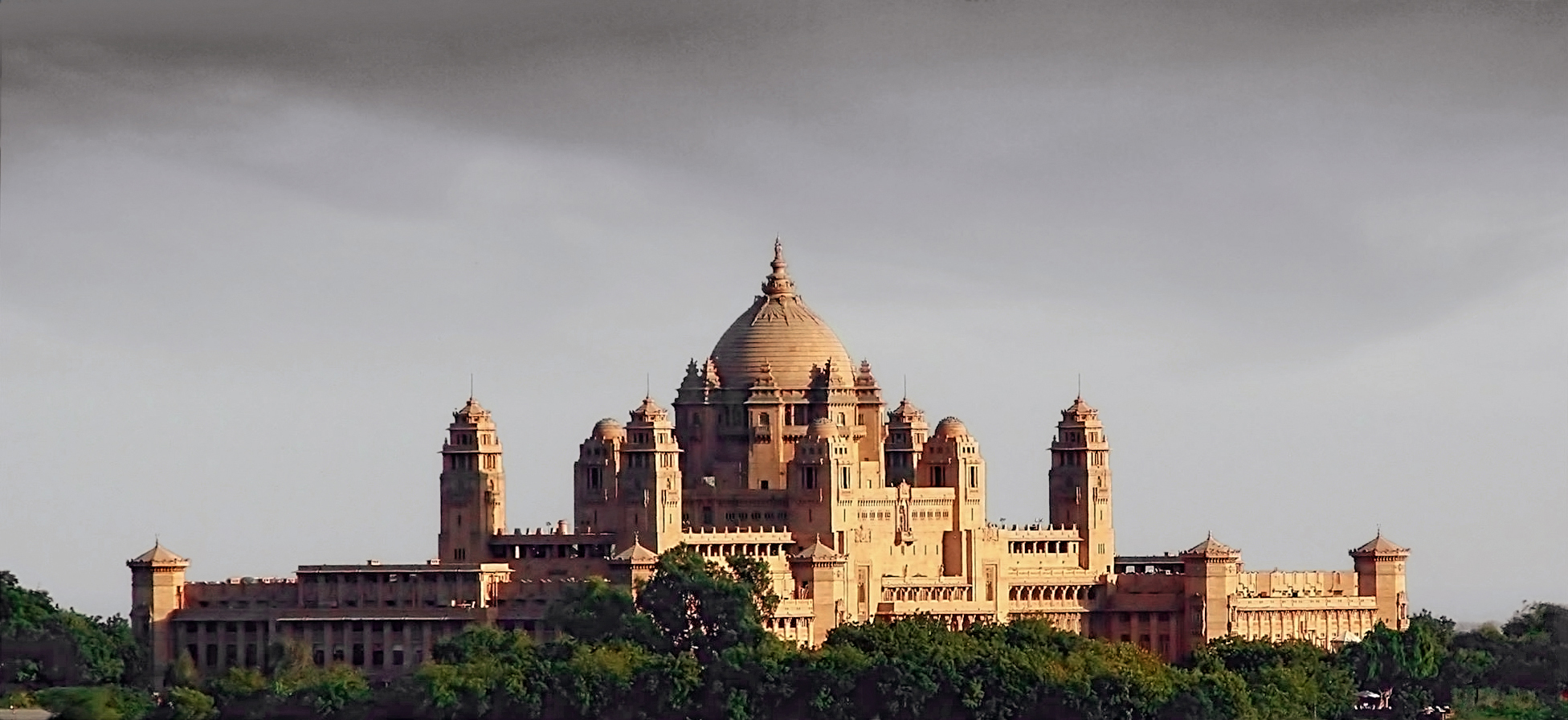 Umaid Bhavan Palace as seen from Mehrangarh Fort